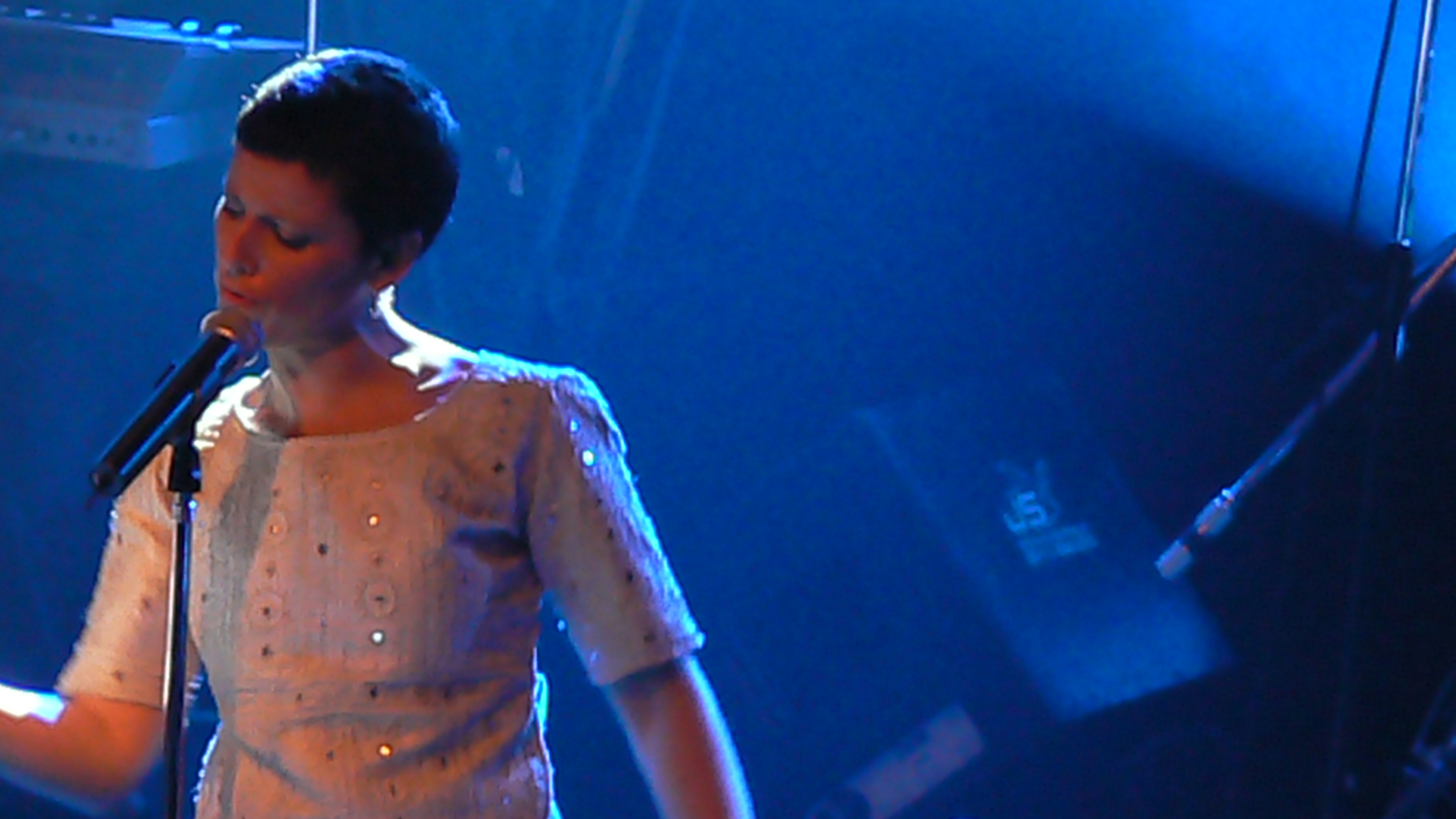 Chambao concert.